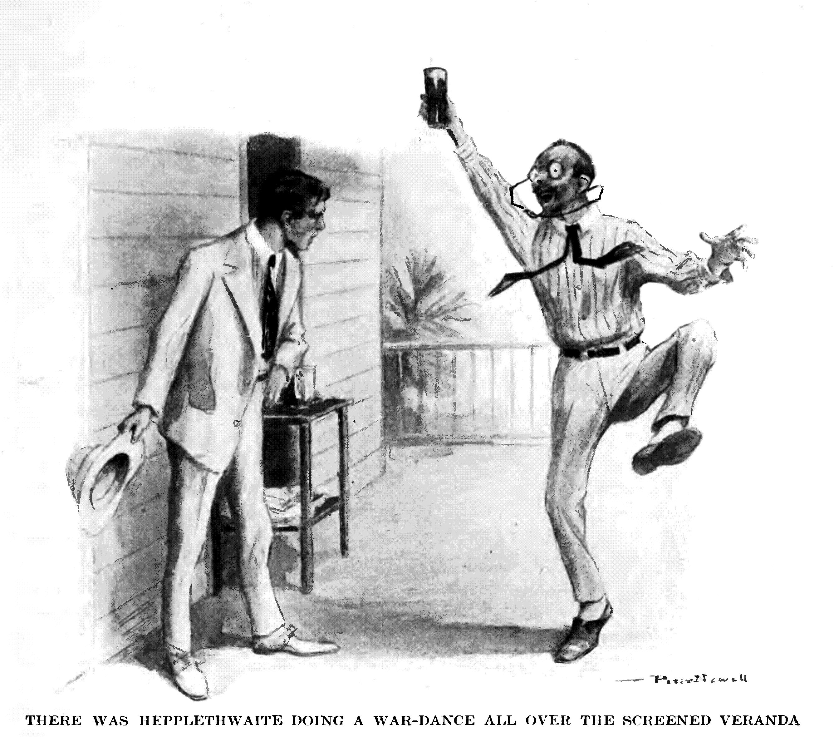 Page 825, Harper's Magazine, 1920--extract of illustration from scan of story "The crocodile's half-sister" by Philip Curtiss. Illustration by Peter Newell